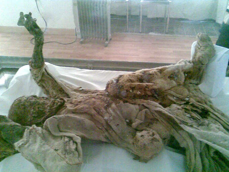 Remains of Salt Man 4 on display at Zanjan. One of the Saltmen found in 2004 in Douzlākh salt mines near Chehrābād, located on the southern part of the Hamzehlu village, on the west side of the city of Zanjan, Zanjan Province in Iran.